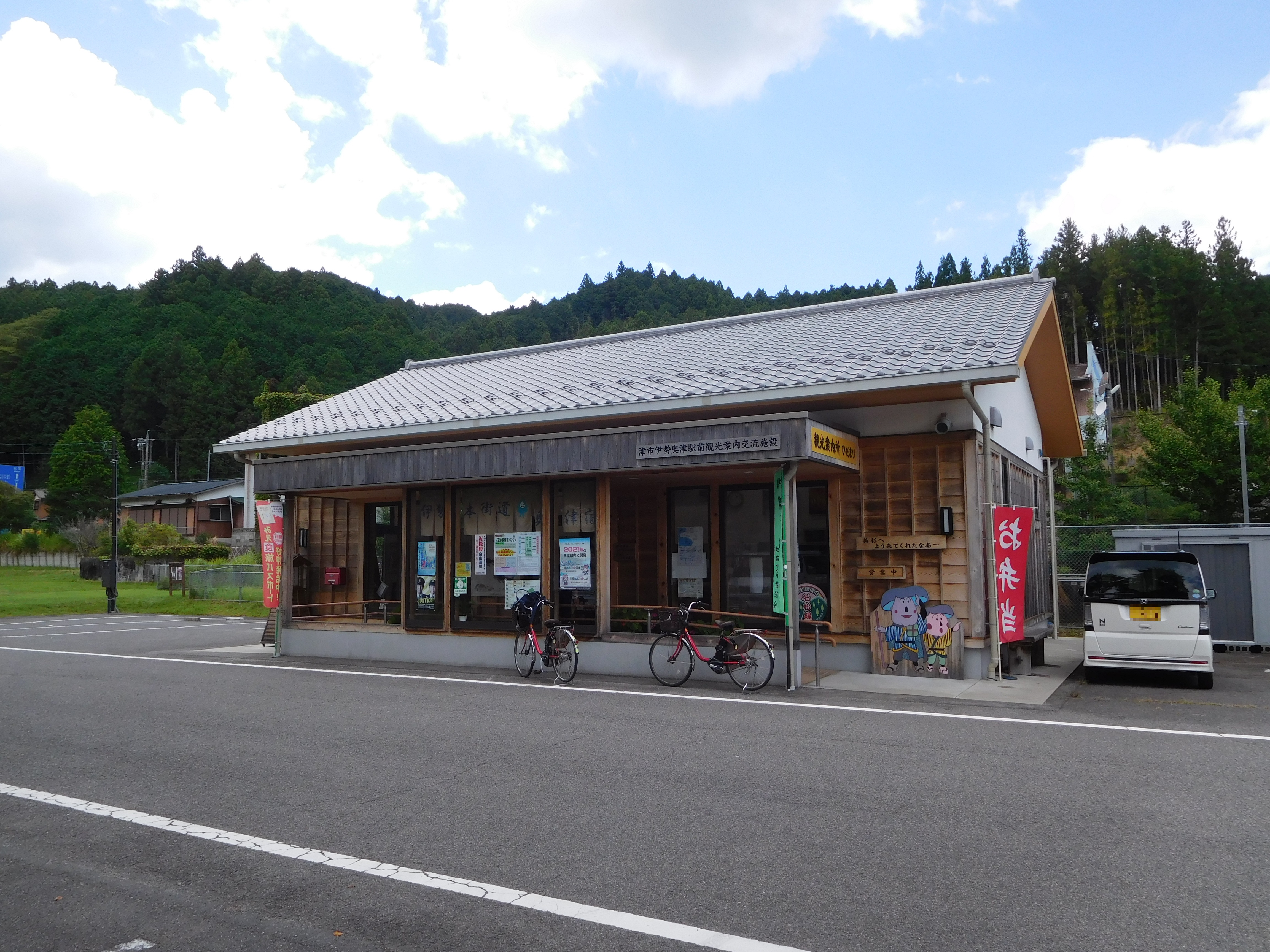 This is Tsu city Ise-Okitsu station Tourist information & Communication Facility "Hidamari".